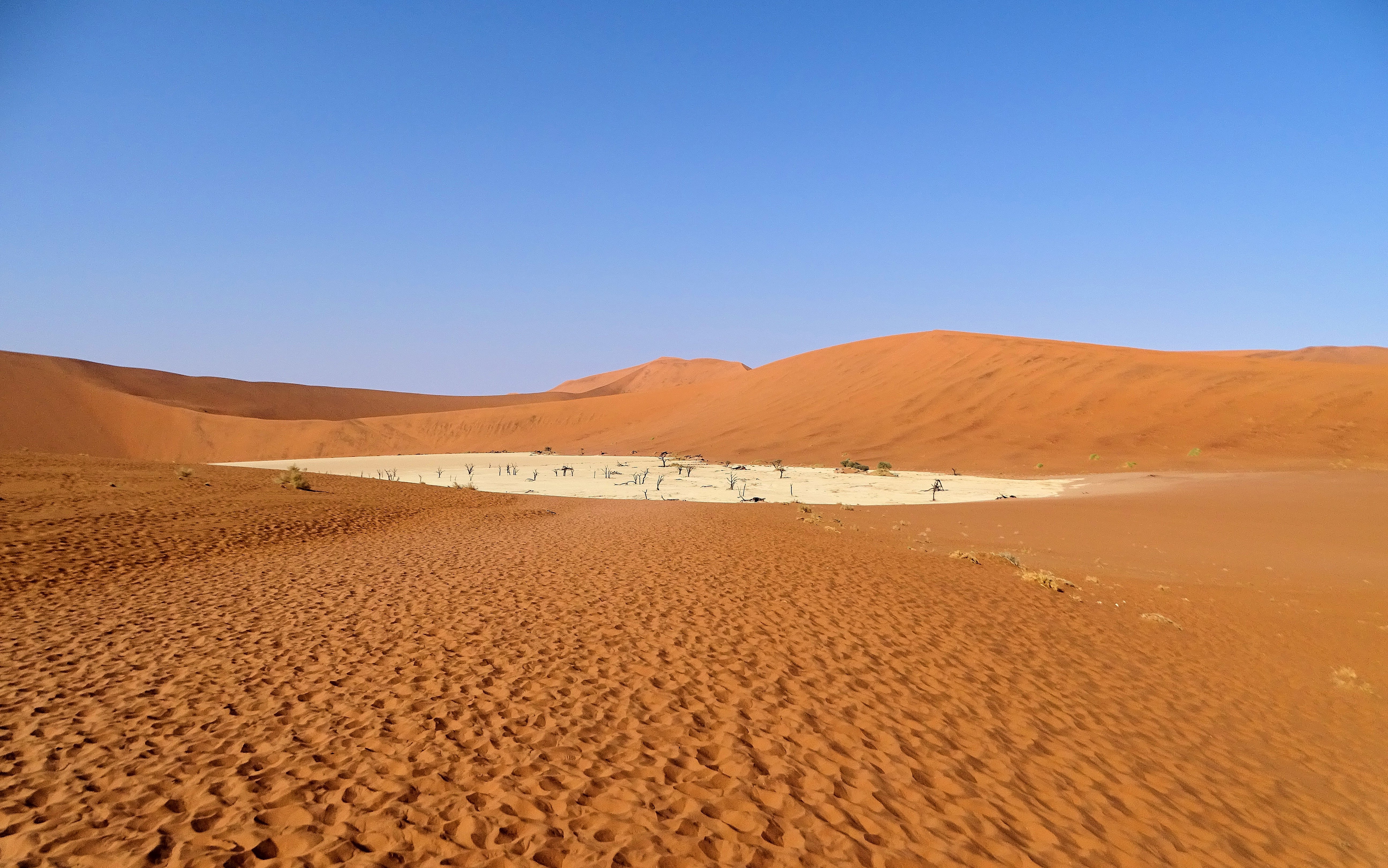 Deadvlei in Namib-Naukluft National Park seen early in the morning before most visitors start arriving. The many footprints in the sand tells us that this place is much visited.